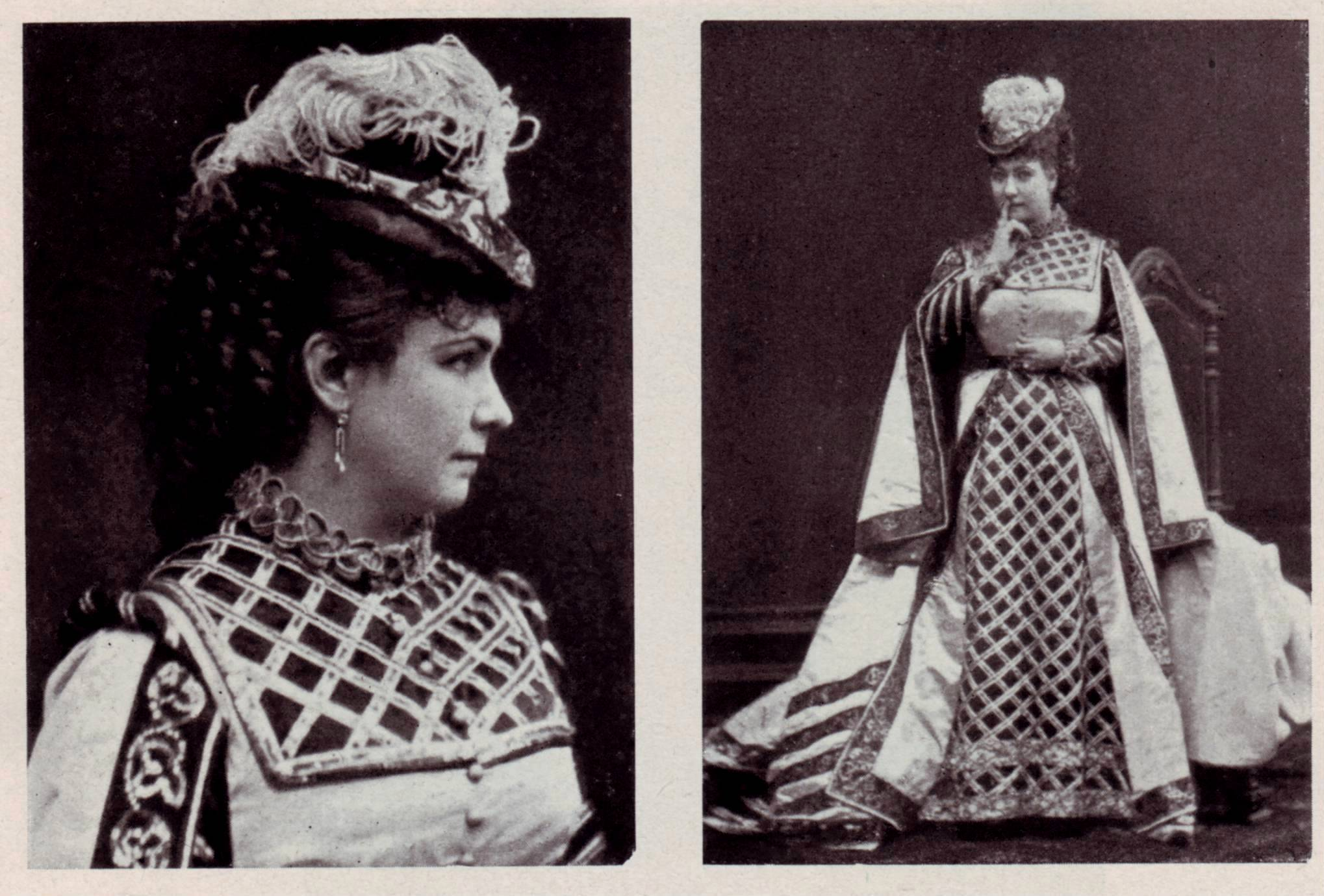 Photograph of the Austrian opera singer Marie Geistinger in the role of Bulotte in Offenbach's Barbe bleue in 1866